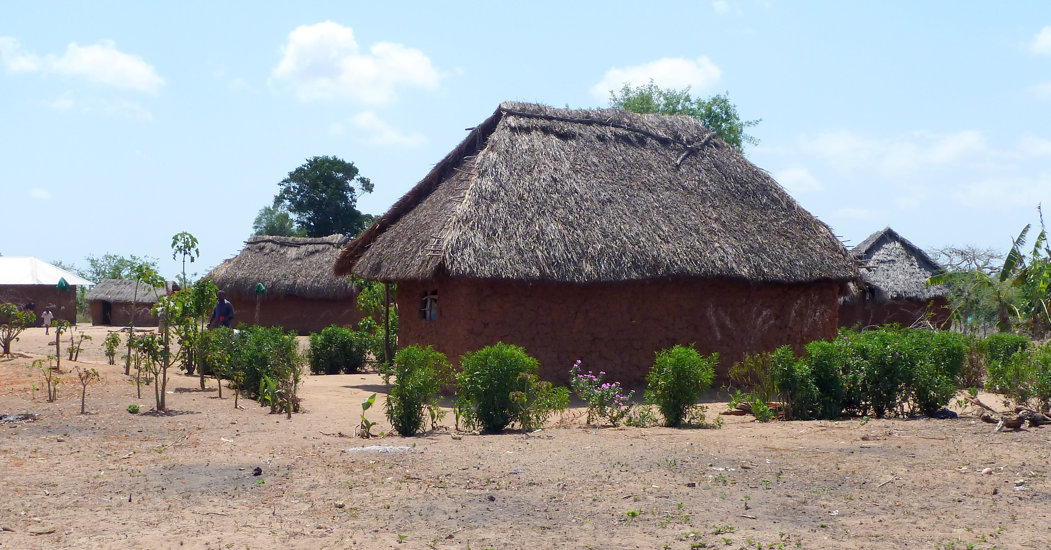 Malindi, Kenya